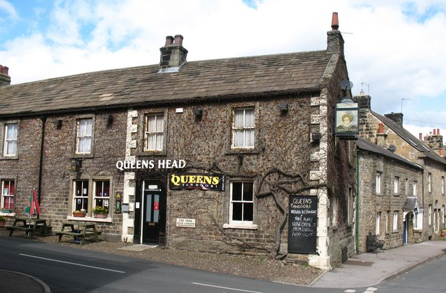 The Queens Head One of two pubs in the village, this one stands on the corner of Church Street close to the market cross.